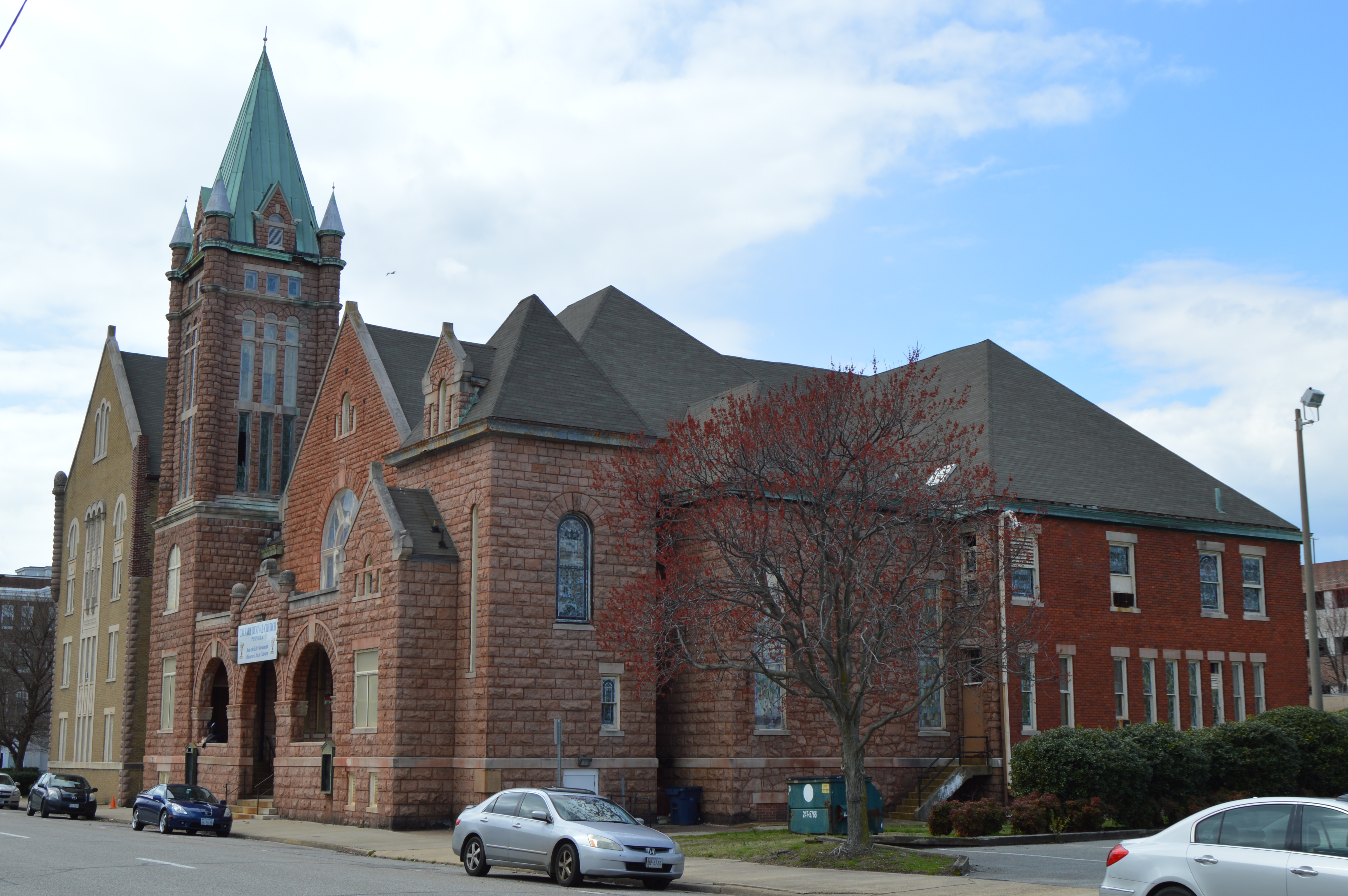 Front and western side of the former First Baptist Church, located at 119 Twenty-ninth Street in Newport News, Virginia, United States. Built in 1902, it is listed on the National Register of Historic Places.